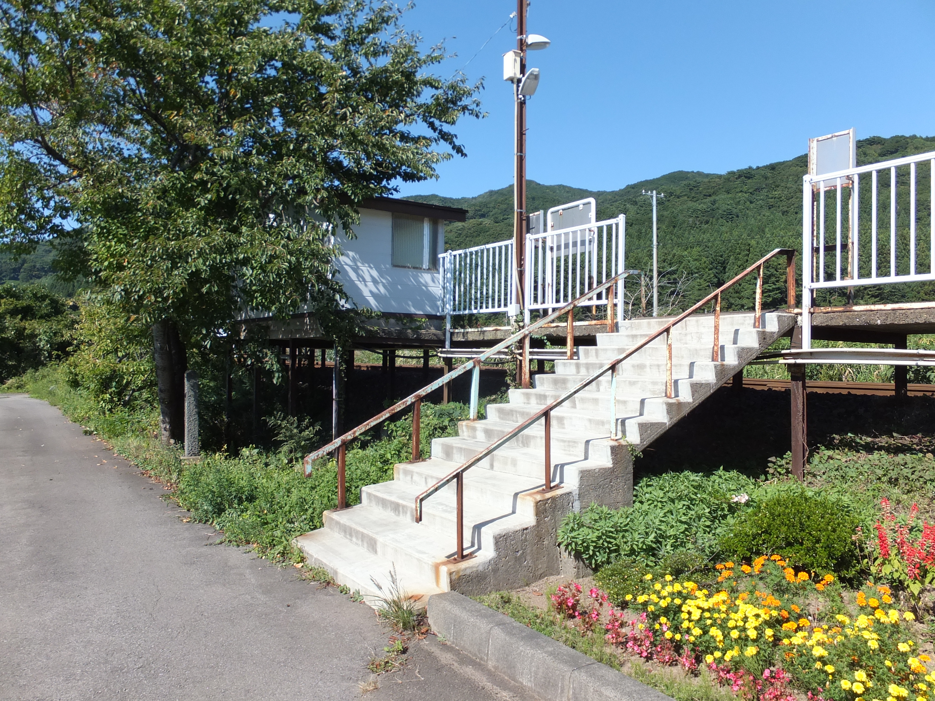 Takinoma Station on the Gonō Line, located in Happō, Akita, Japan